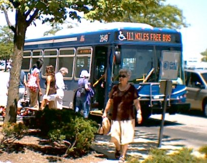 Niles Free Bus at Golf Mill